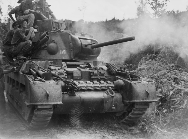 Australian War Memorial (AWM) catalog number 089970 A Matilda II tank of the Australian 2/9th Armoured Regiment firing its three inch howitzer at Japanese positions during the Battle of Tarakan